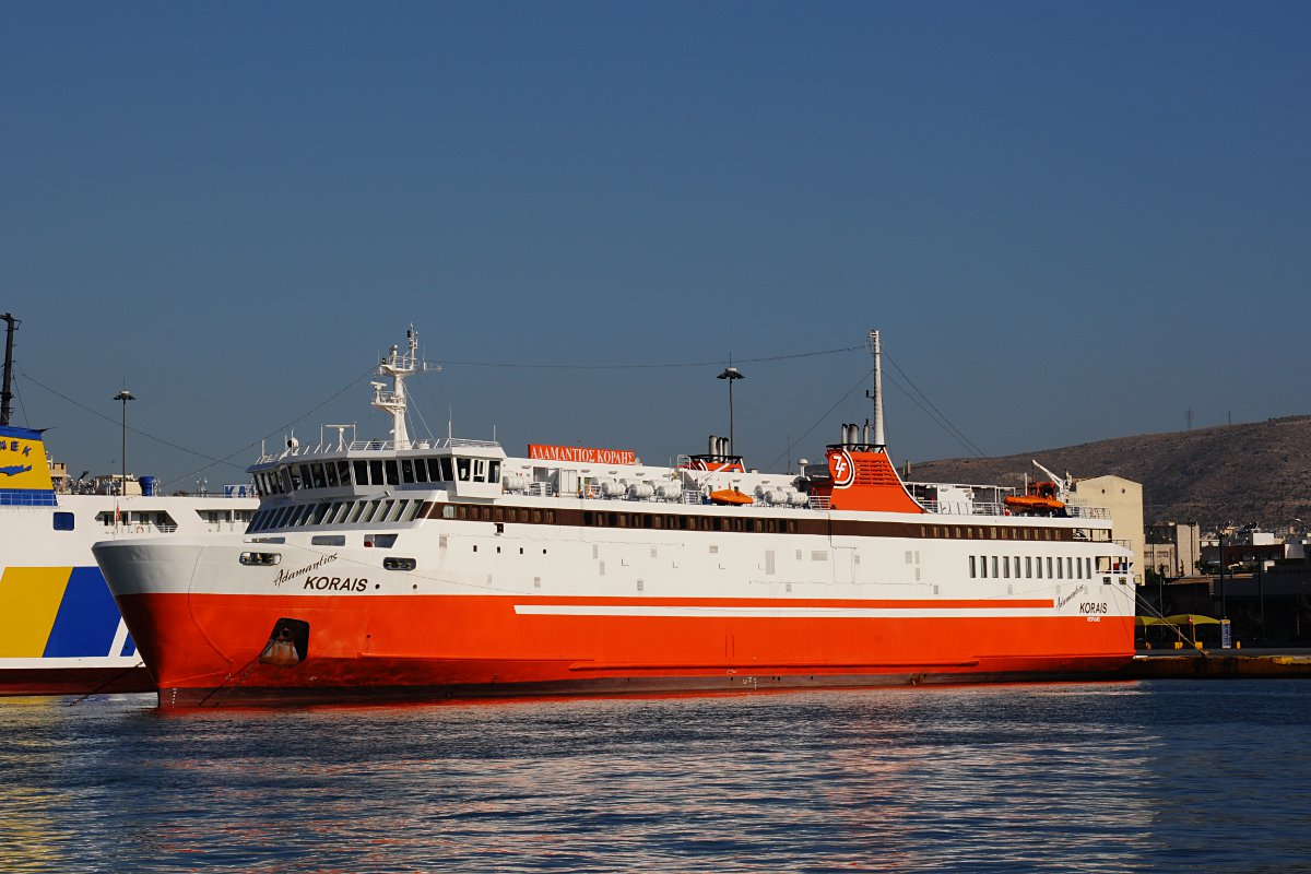 F/B Adamantios Korais, SVAE3, IMO 8613607, in Piraeus harbour, Greece.